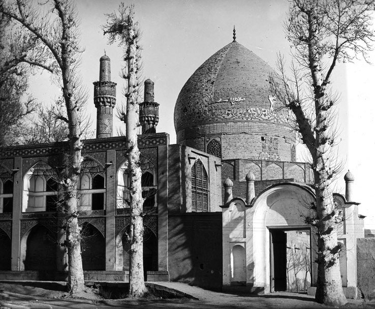 Chahar Bagh School